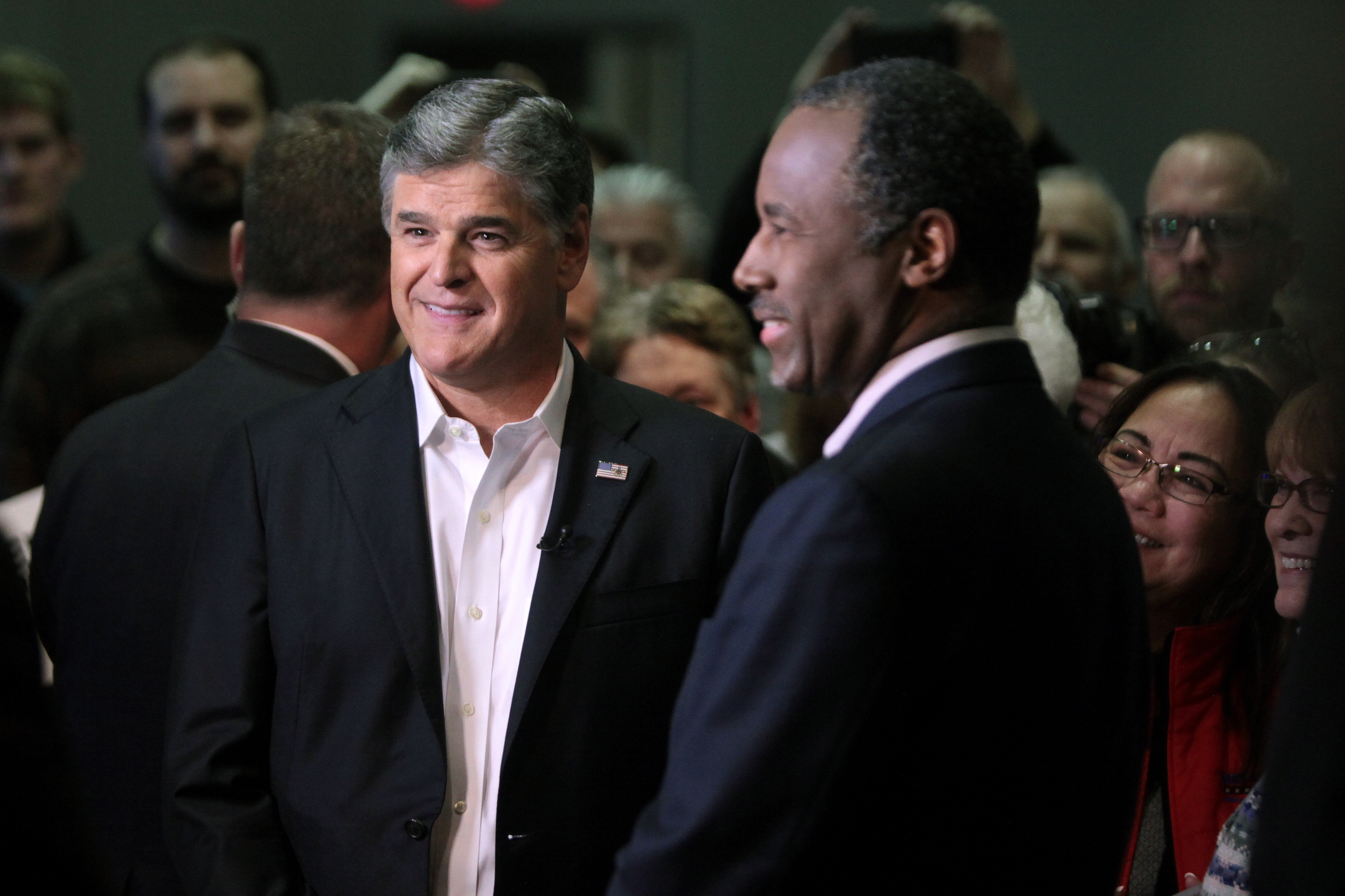 Sean Hannity and Ben Carson speaking prior to a Revive 714 church service at the Heritage Assembly of God in Des Moines, Iowa.